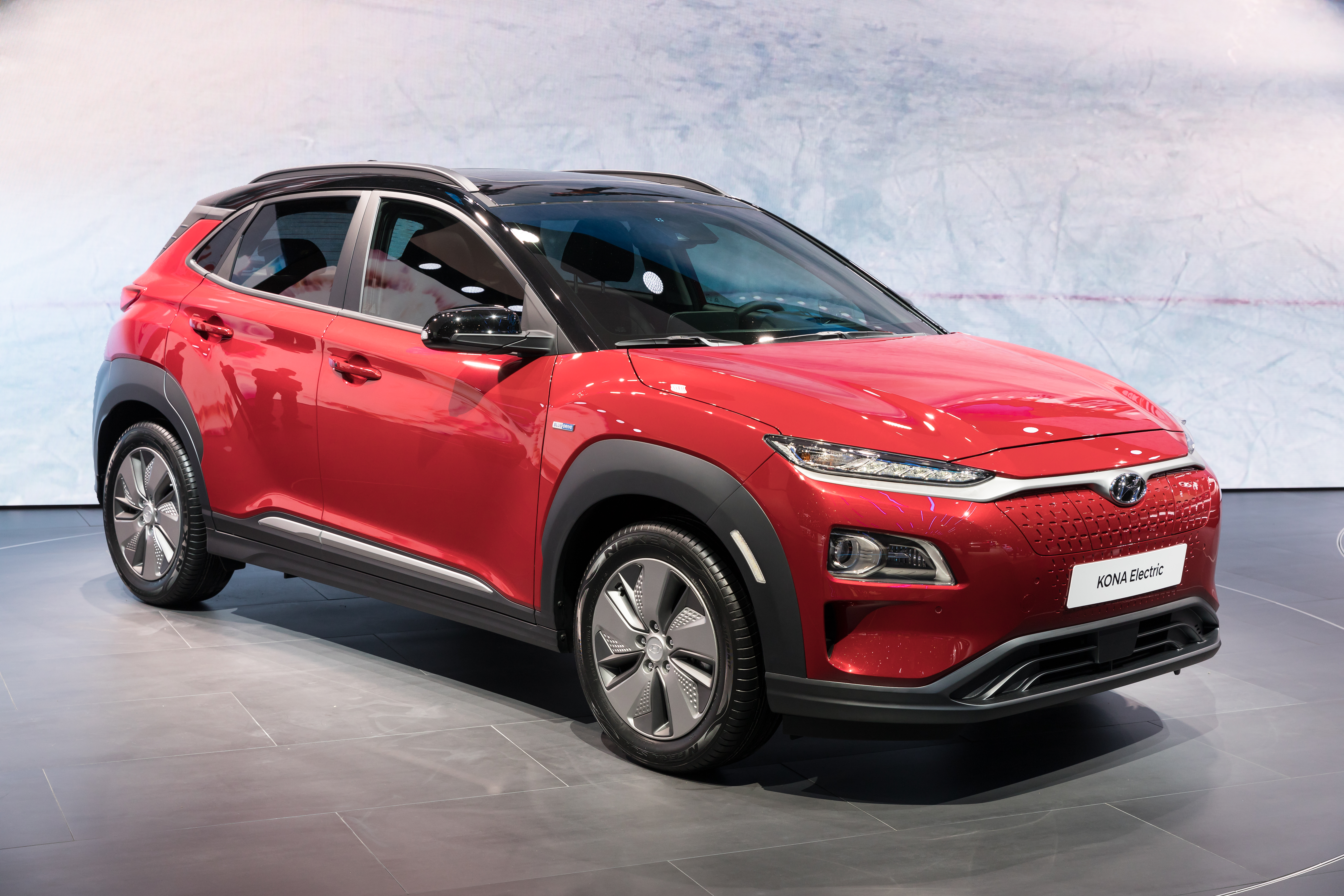 Hyundai Kona Electric, Geneva International Motor Show 2018